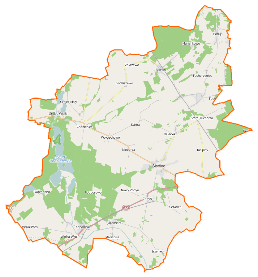 Map of Gmina Siedlec, Poland This map of Siedlec (gmina) was created from OpenStreetMap project data, collected by the community. This map may be incomplete, and may contain errors. Don't rely solely on it for navigation.